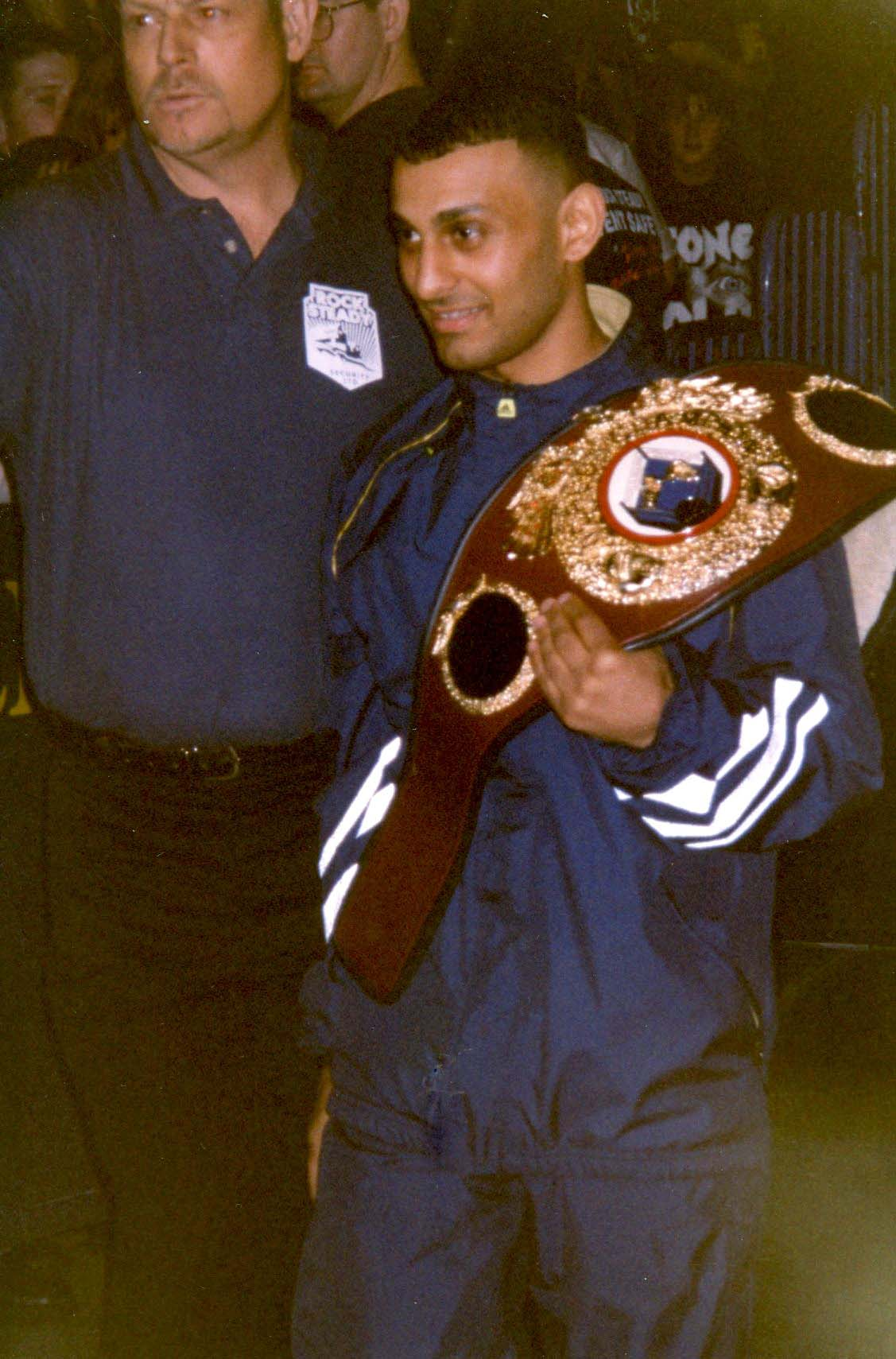 Prince Naseem at a World Wrestling Federation event with his WBO World Featherweight Championship.